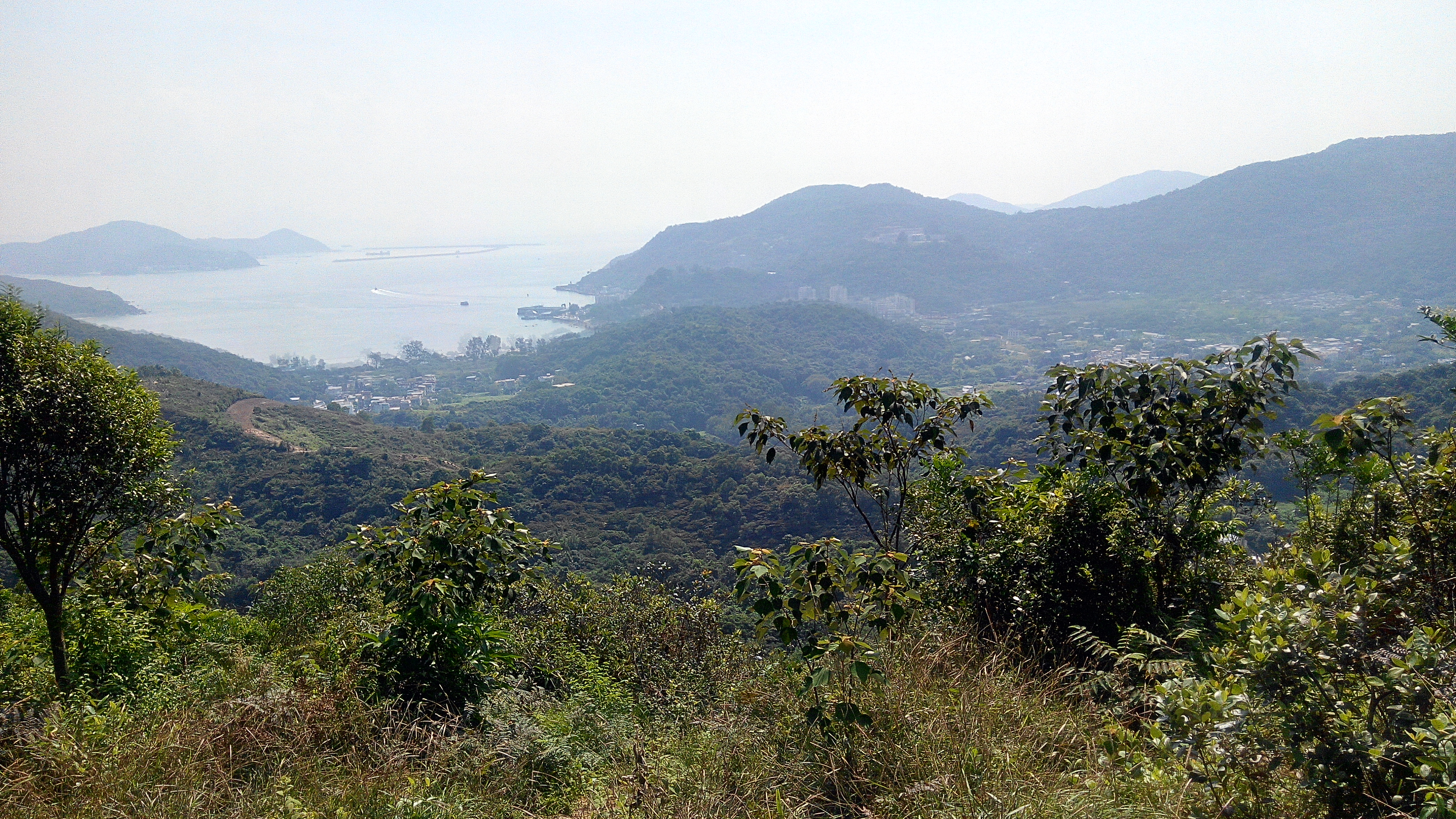 Silver Mine Bay, Mui Wo, Lantau Island